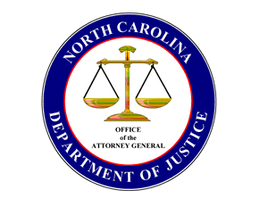 Seal of the Attorney General of North Carolina.